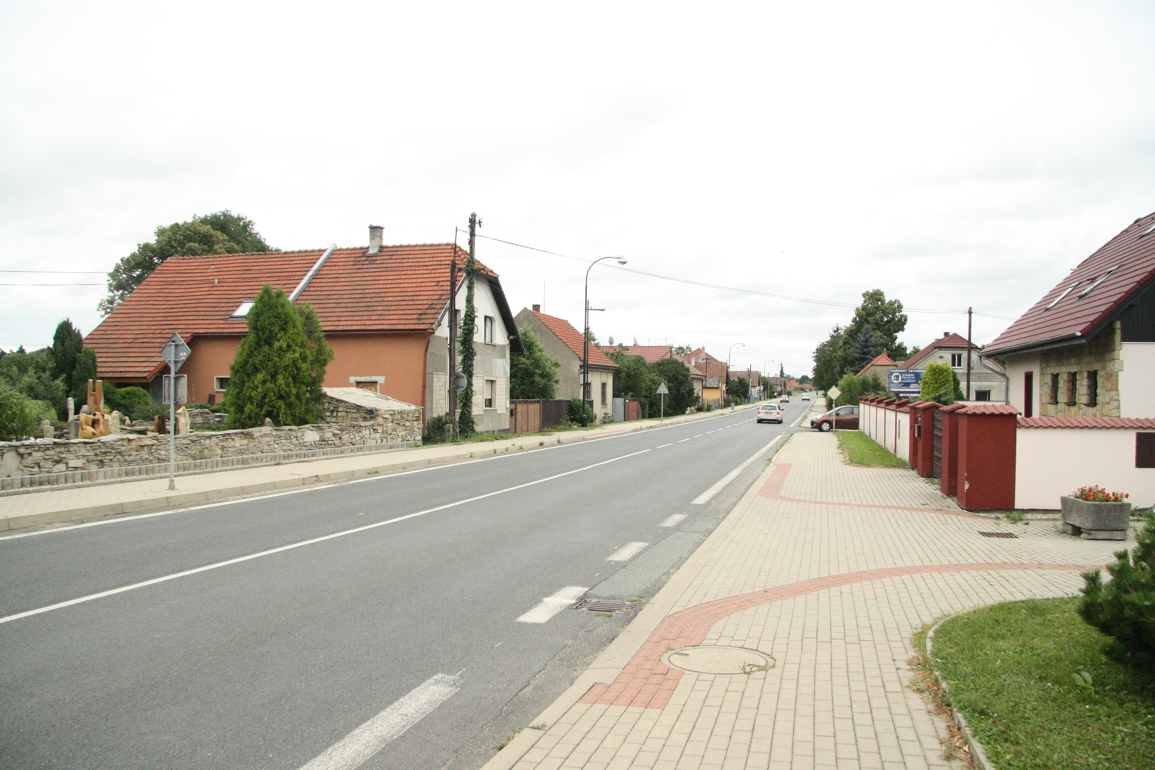 Center of Kovanice, Nymburk District.